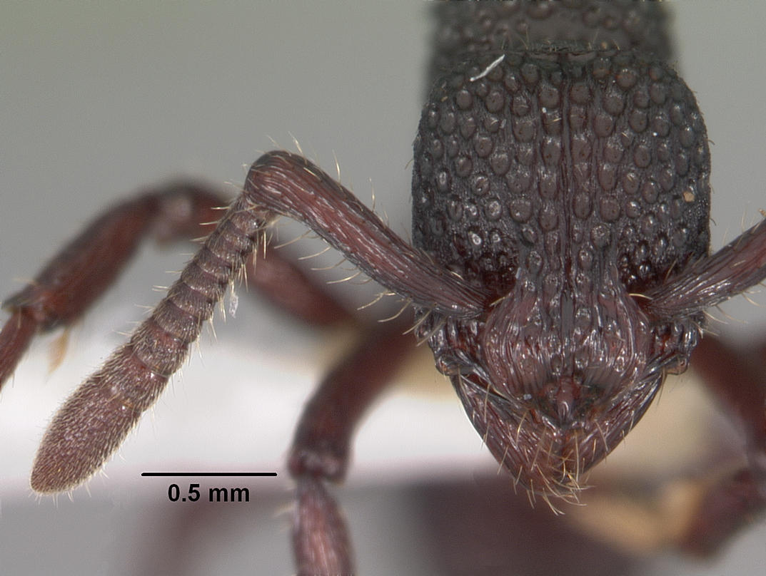 Head view of ant Loboponera vigilans specimen casent0102329.